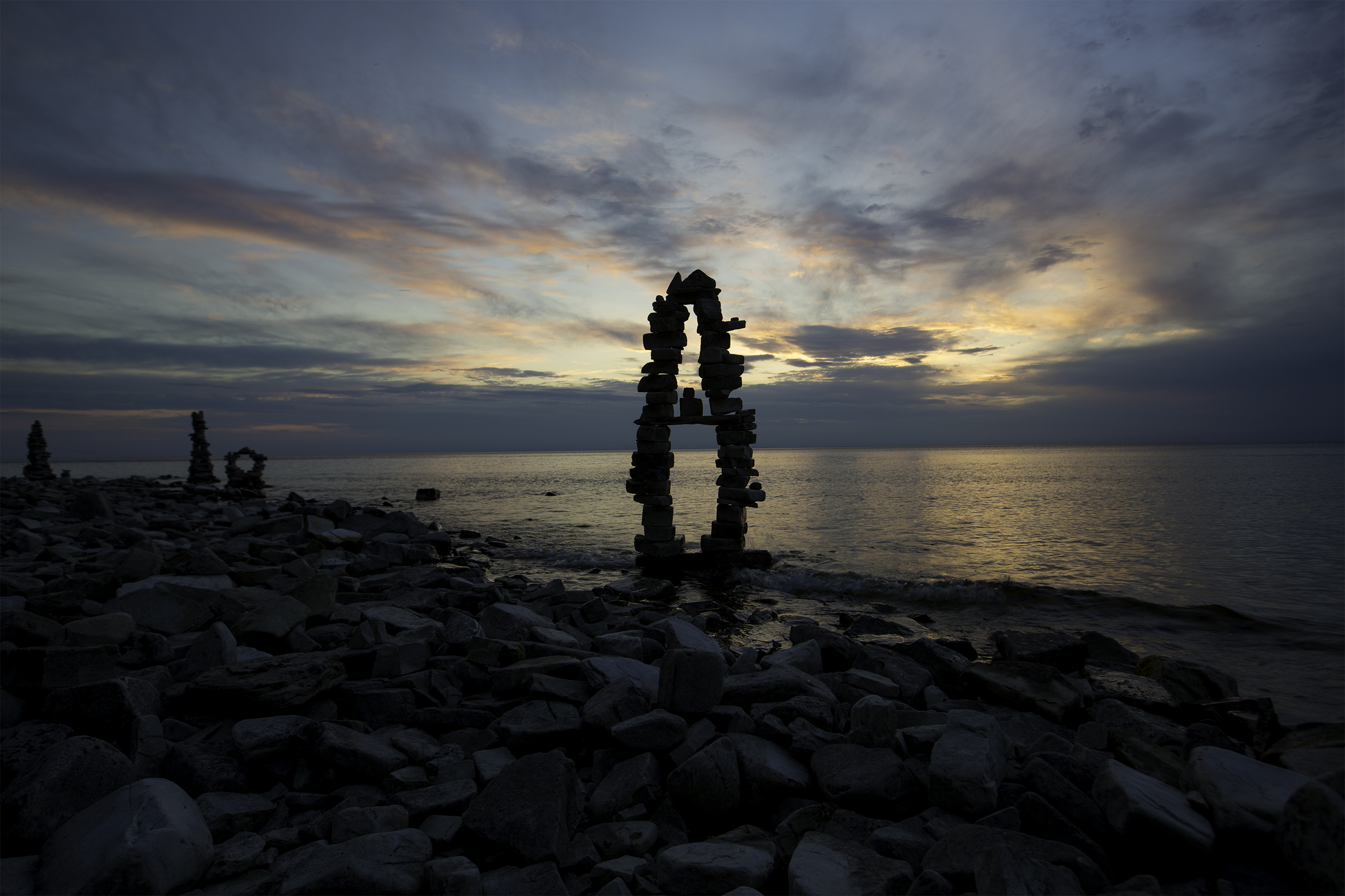 Memory Diaries Art Installation, Door County, WI. June 2013